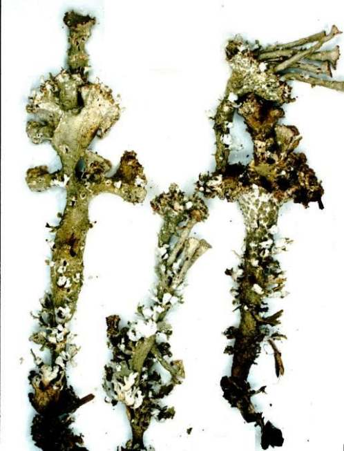 Cladonia cervicornis subsp. verticillata (Hoffm.) Ahti, 1980 Photograph of a herbarium specimen. Cladonia cervicornis subsp. verticillata was growing on forest soil along Trail 517 about 2 miles from Forest Service Road 19 at the Dolly Sods Wilderness Area of the Monongahela National Forest, Randolph County, West Virginia, USA. Collected and determined by E.C. Uebel (No. U-32, 19 May 2001).